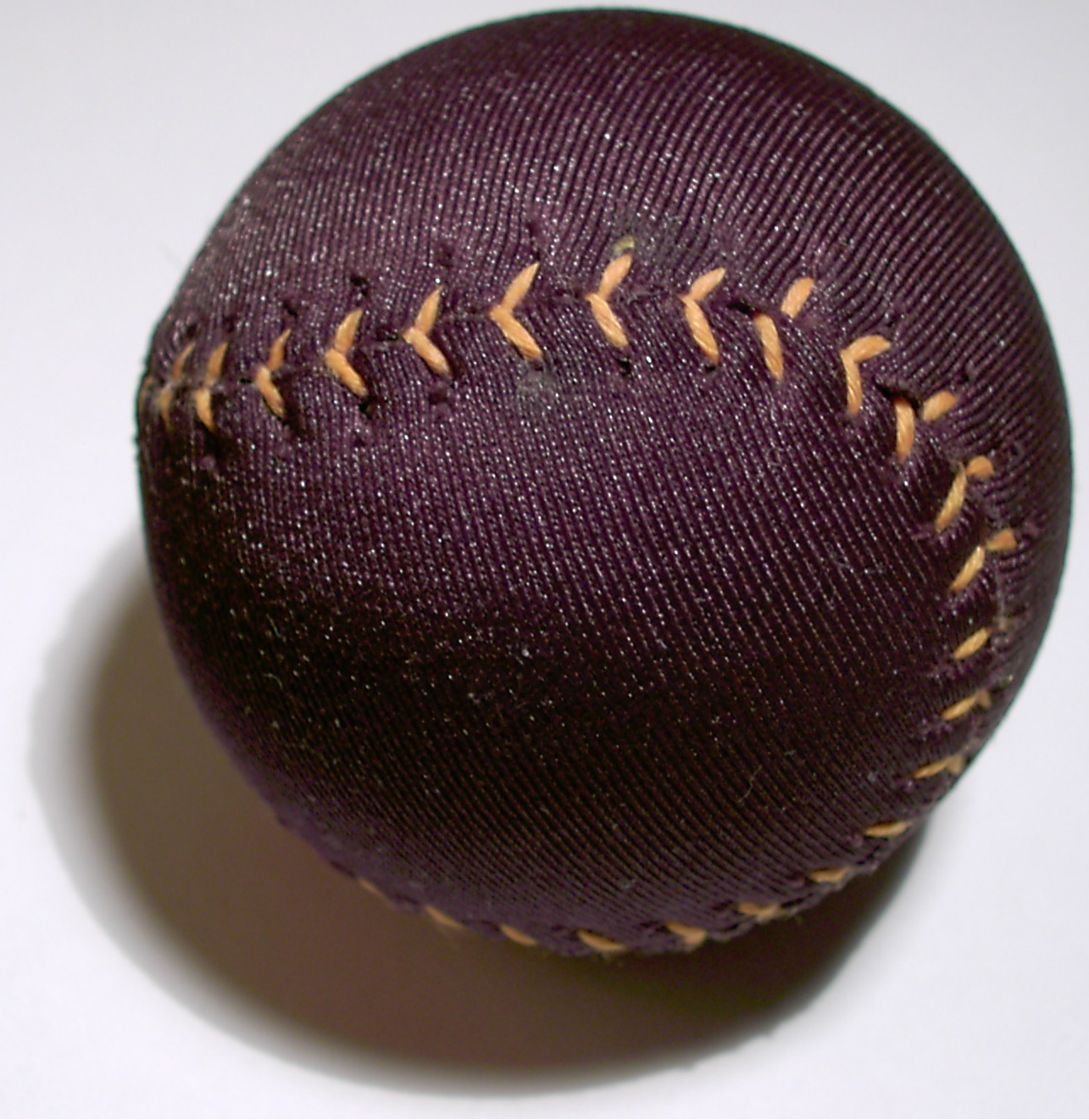 A gel-filled stress ball. Taken and released into the public domain by User:Kallemax.